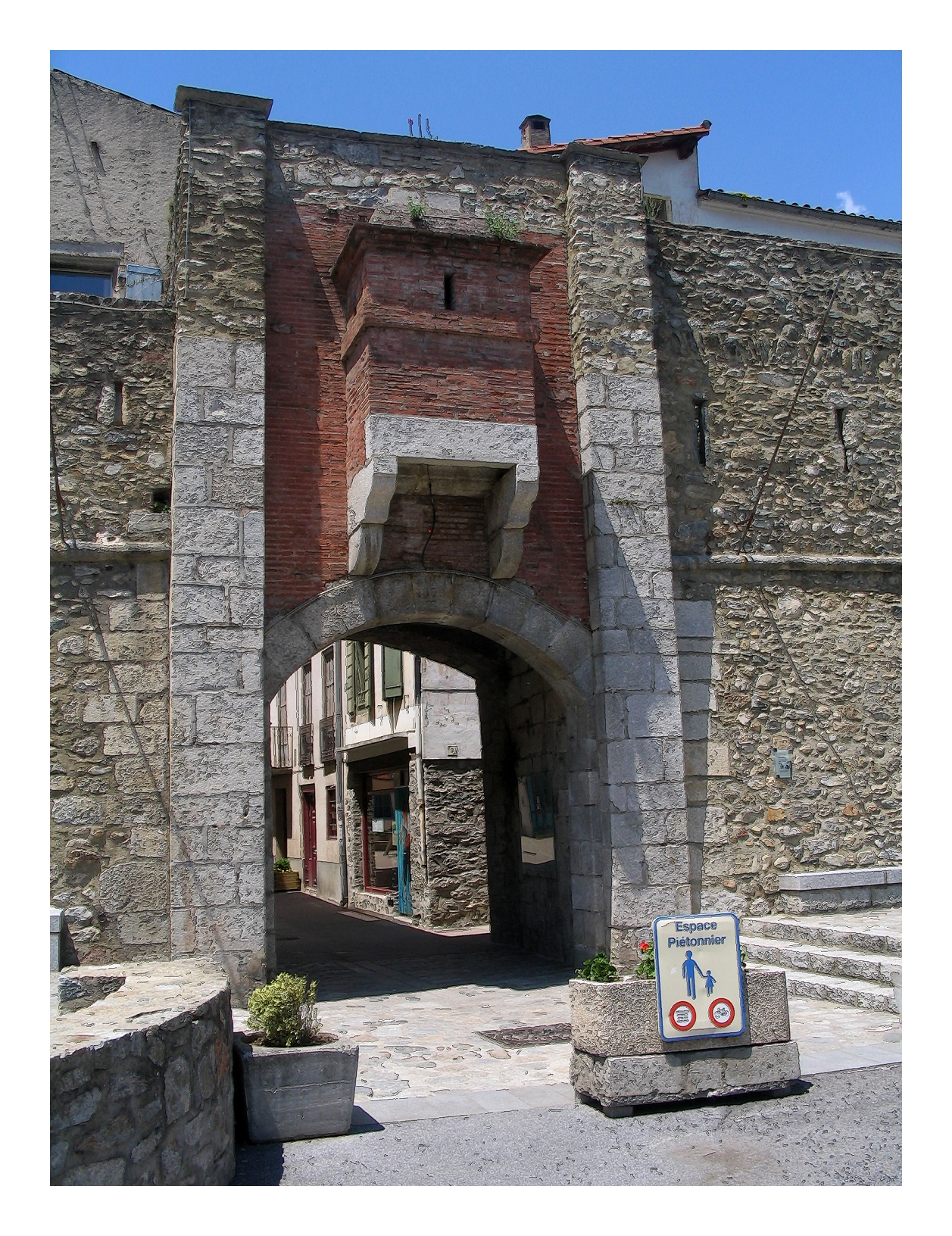 Town Gate - Prats-le-Mollo, France